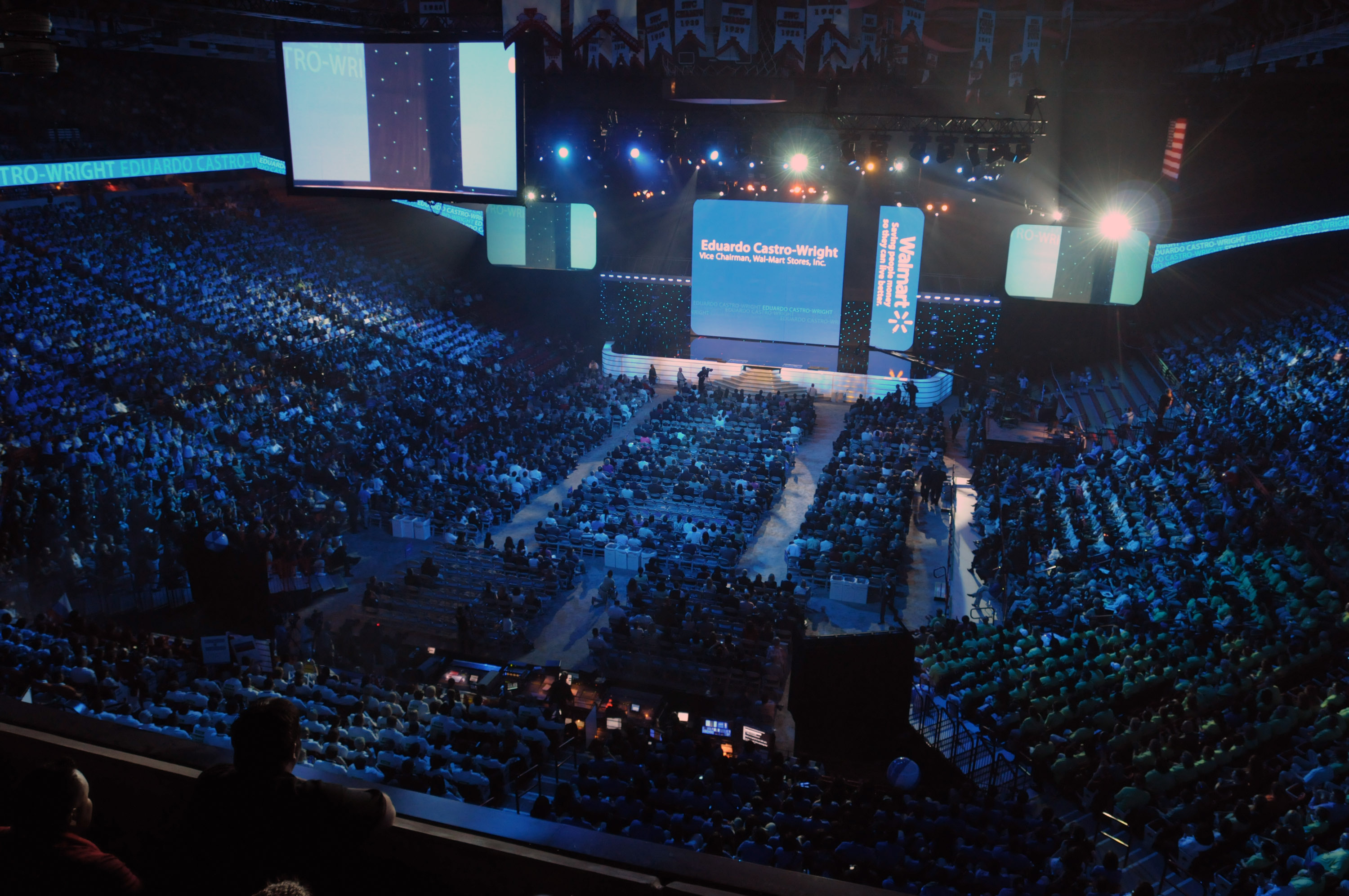 The 2010 Walmart Shareholders' Meeting at Bud Walton Arena in Fayetteville, Ark, on Friday, June 4, 2010.